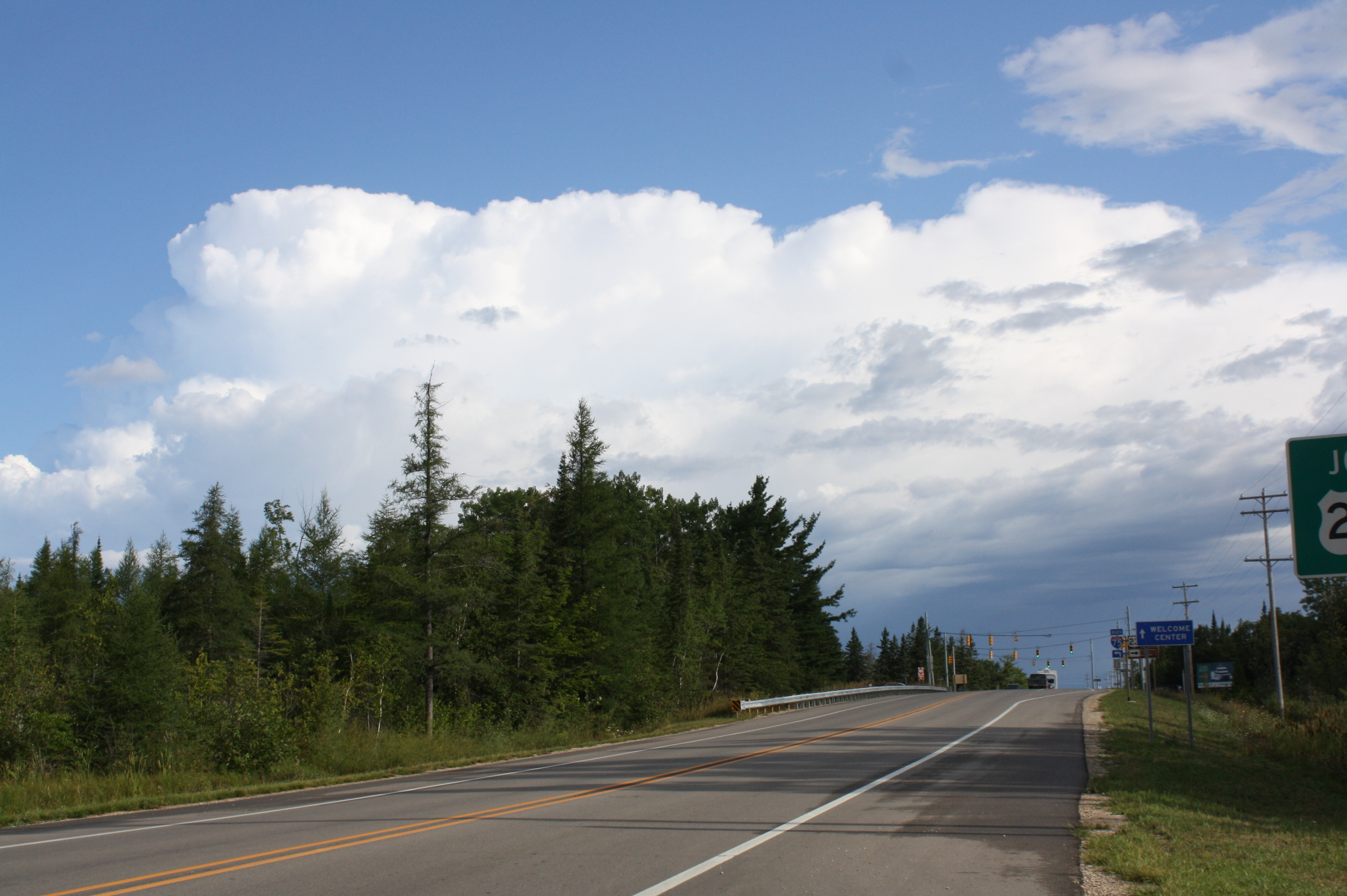 The former intersection of M-108 (Michigan highway) and U.S. Route 23 in Mackinaw City, Michigan after its decommision.